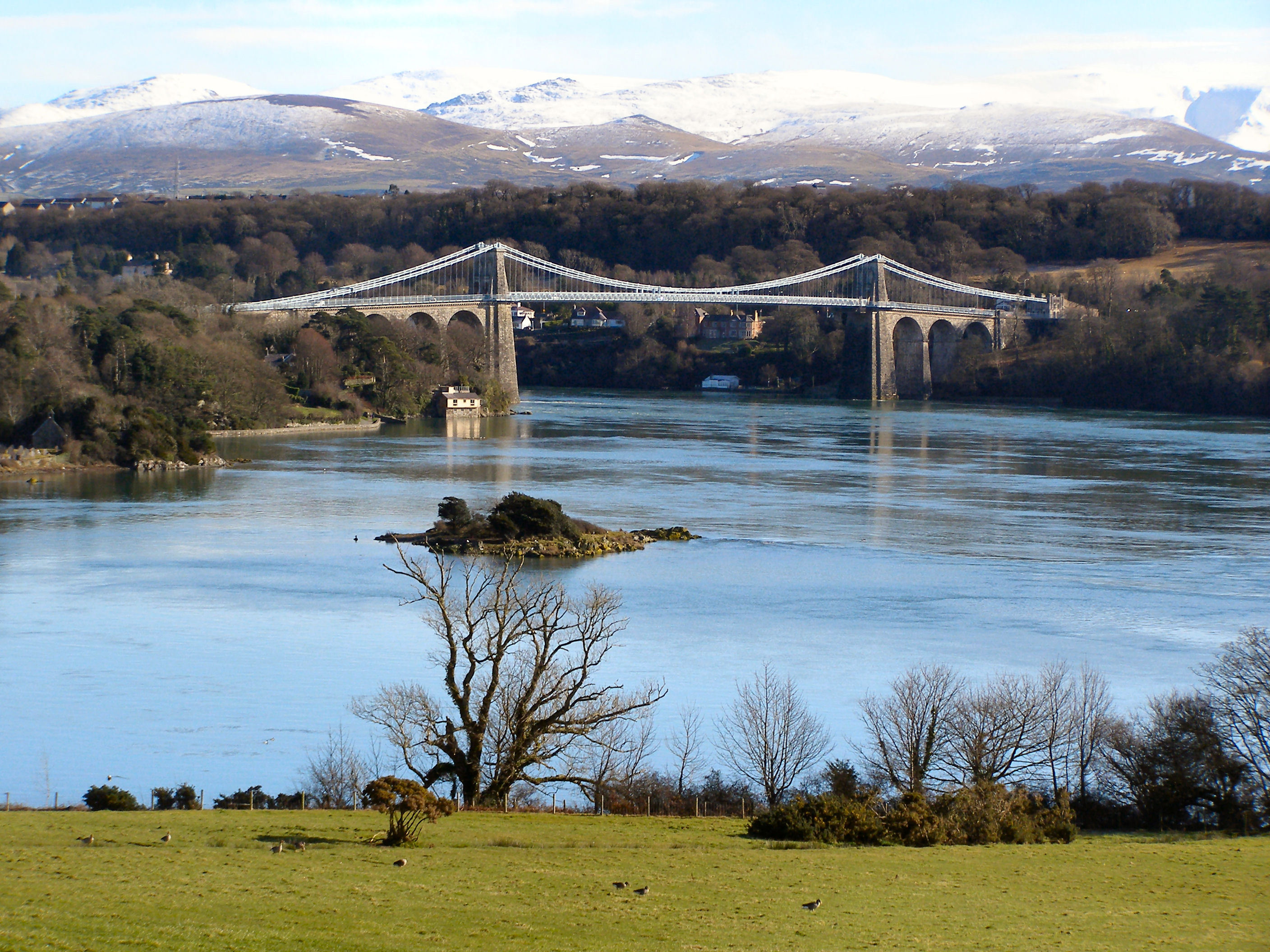 Menai Suspension Bridge Menai_Suspension_Bridge